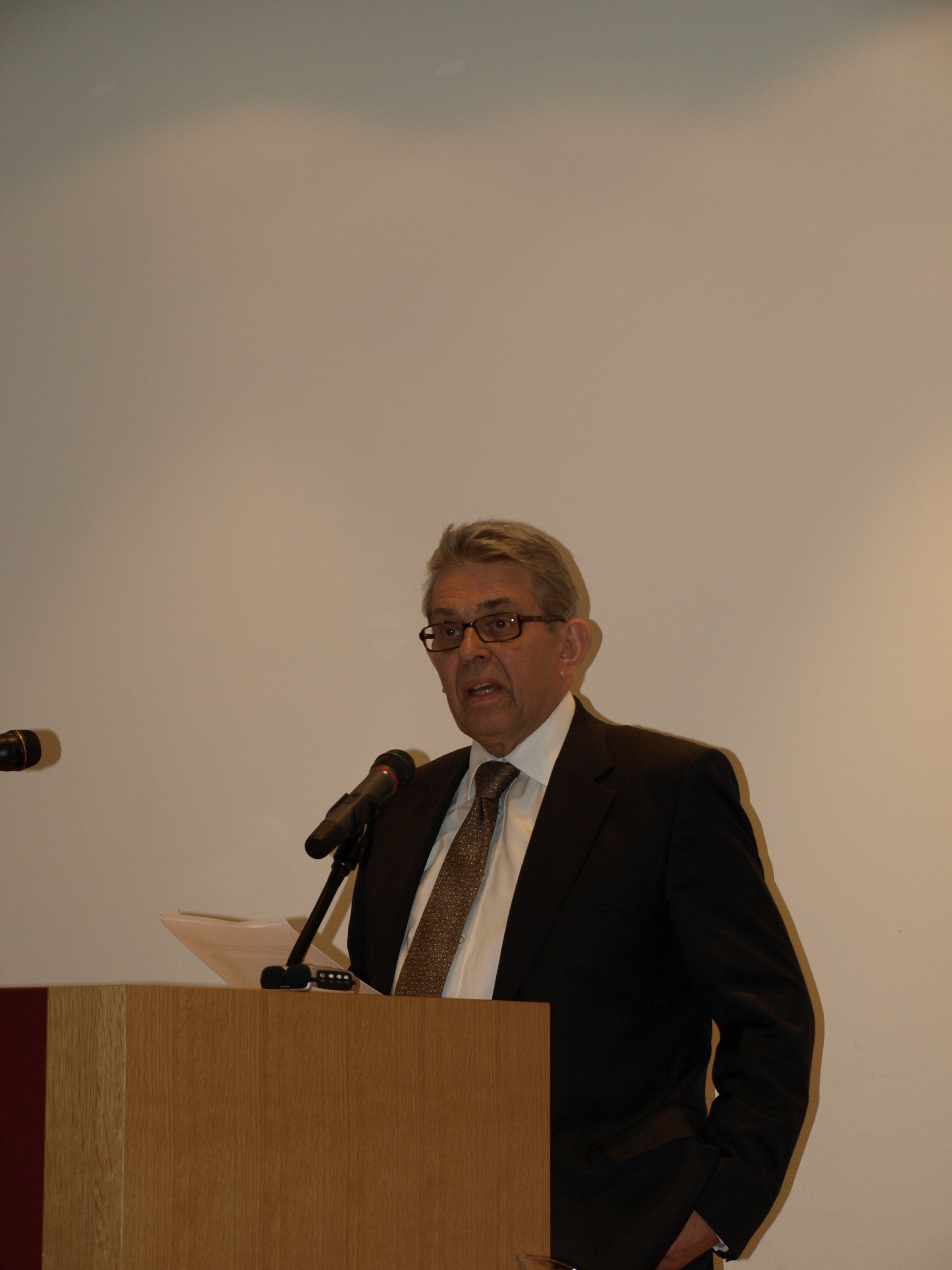 Icelandic minister of justice and ecclesiastical affairs Björn Bjarnason giving a lecture on the legacy of the cold war, organised by the icelandic association of historians at the National Museum of Iceland.